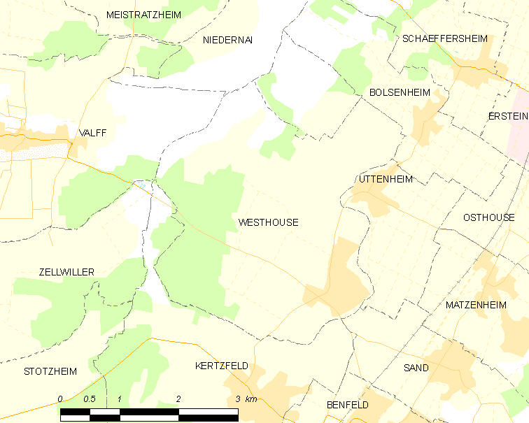 Map of French municipality